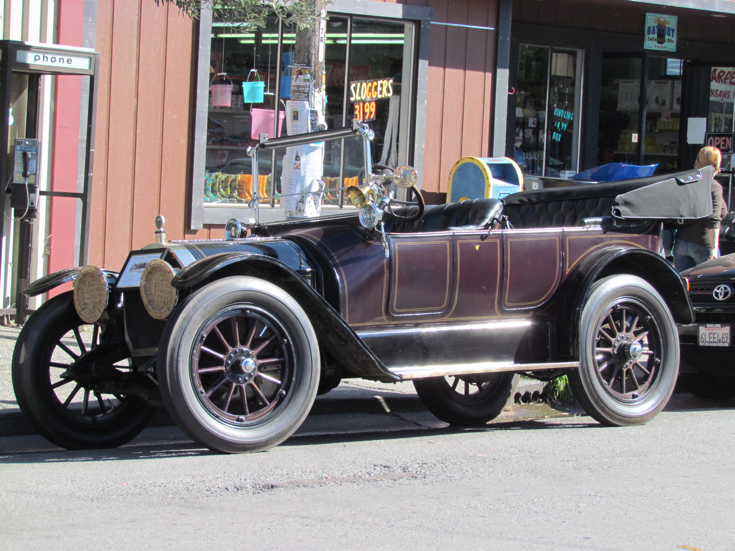 1914 KisselKar parked on the street in Point Reyes Station, CA